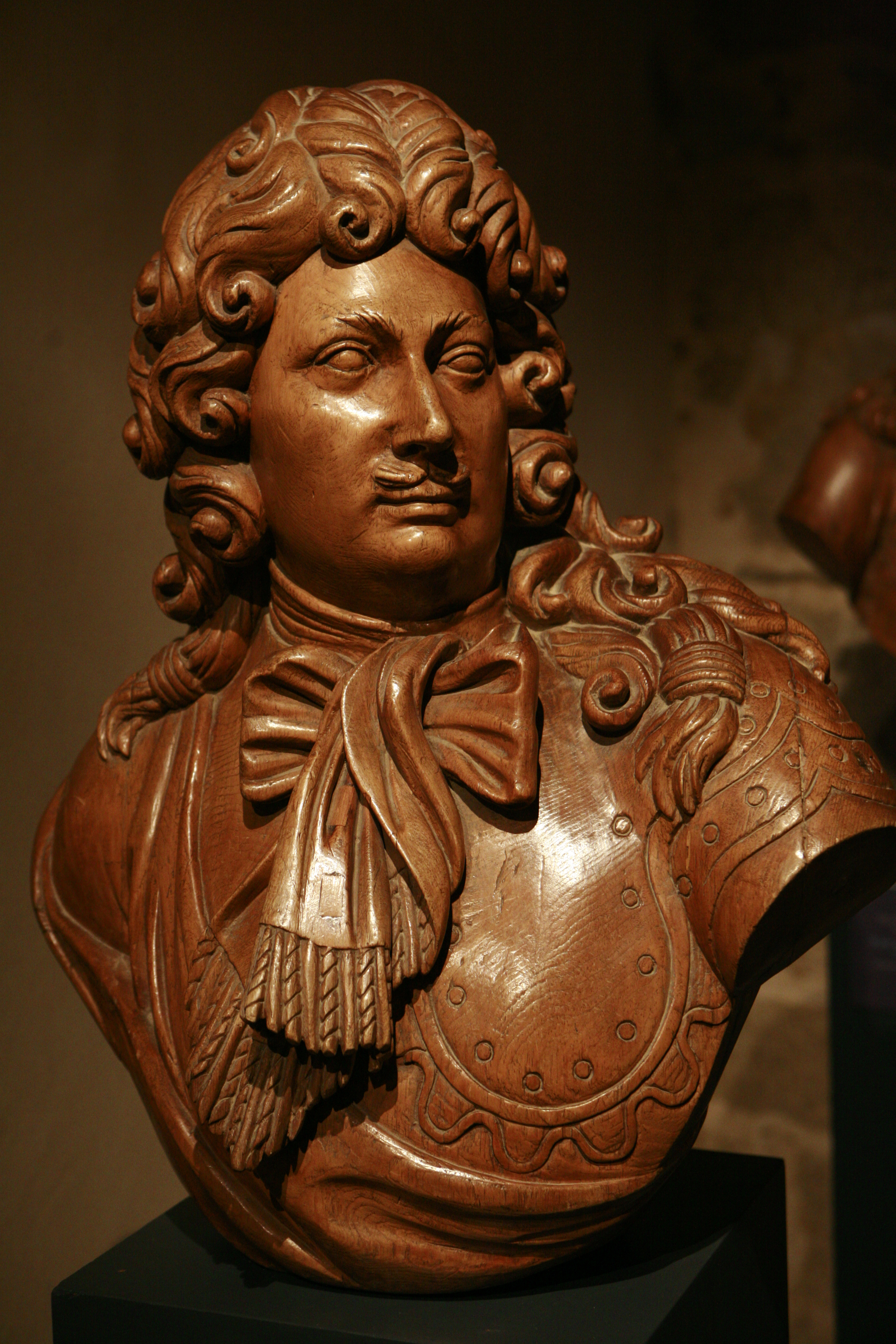 Bust of Louis Victor de Rochechouart de Mortemart, duc de Vivonne, by Yves-Étienne Collet (1761-1843) On display at Brest naval museum, accession number MnM 41 OA 95